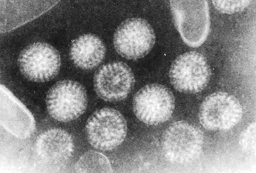 Transmission electron micrograph of rotavirus